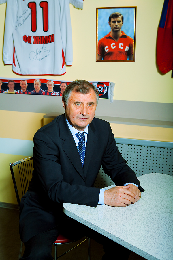 Anatoliy Fyodorovich Byshovets (born 23 April 1946 in Kiev, USSR) is a Soviet and Ukrainian football manager and former international striker.